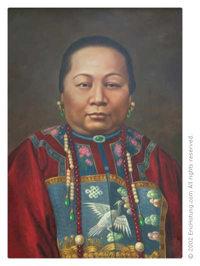 Painted portrait of Madame Si, mother of Robert Hotung